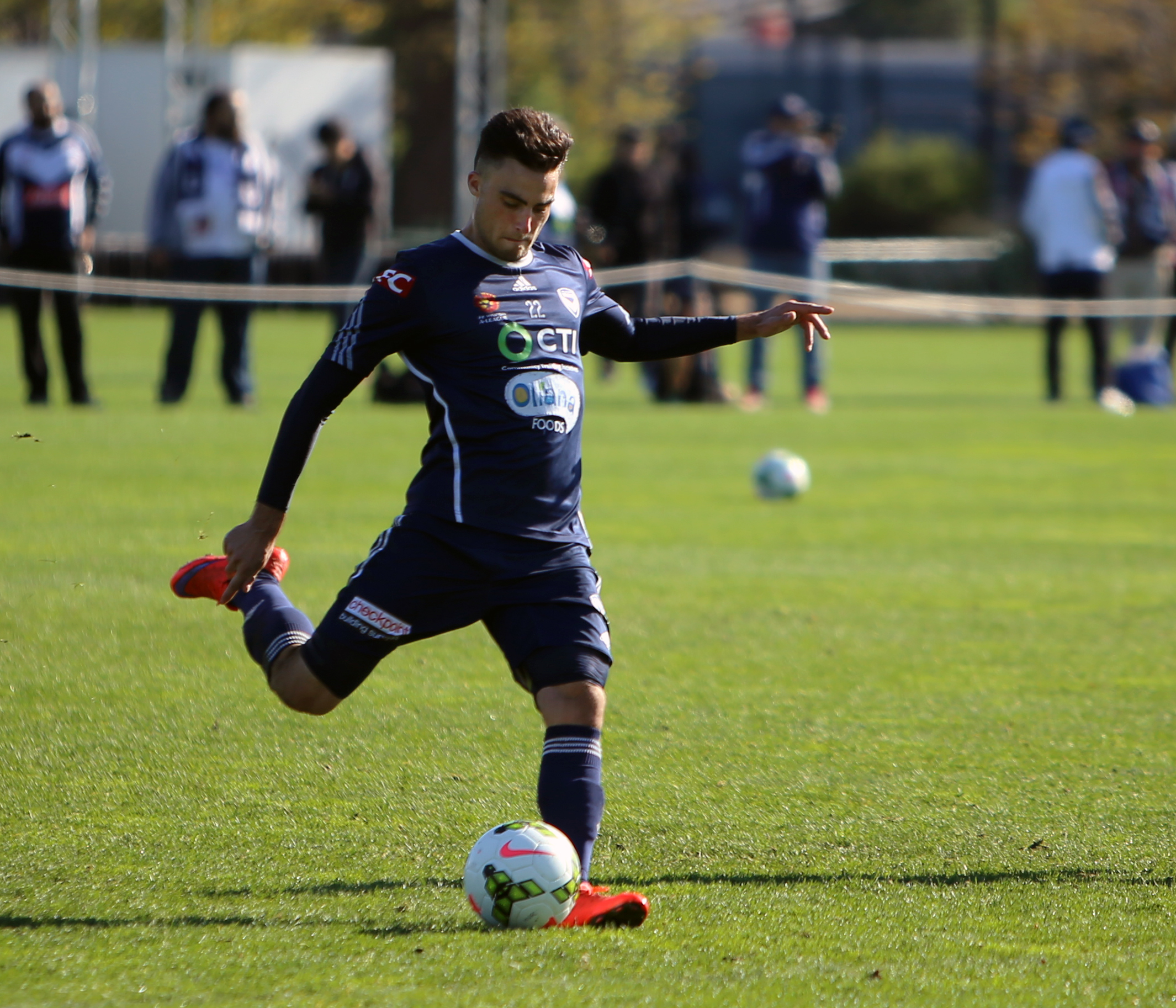 Jesse Makarounas training for Melbourne Victory, May 2015